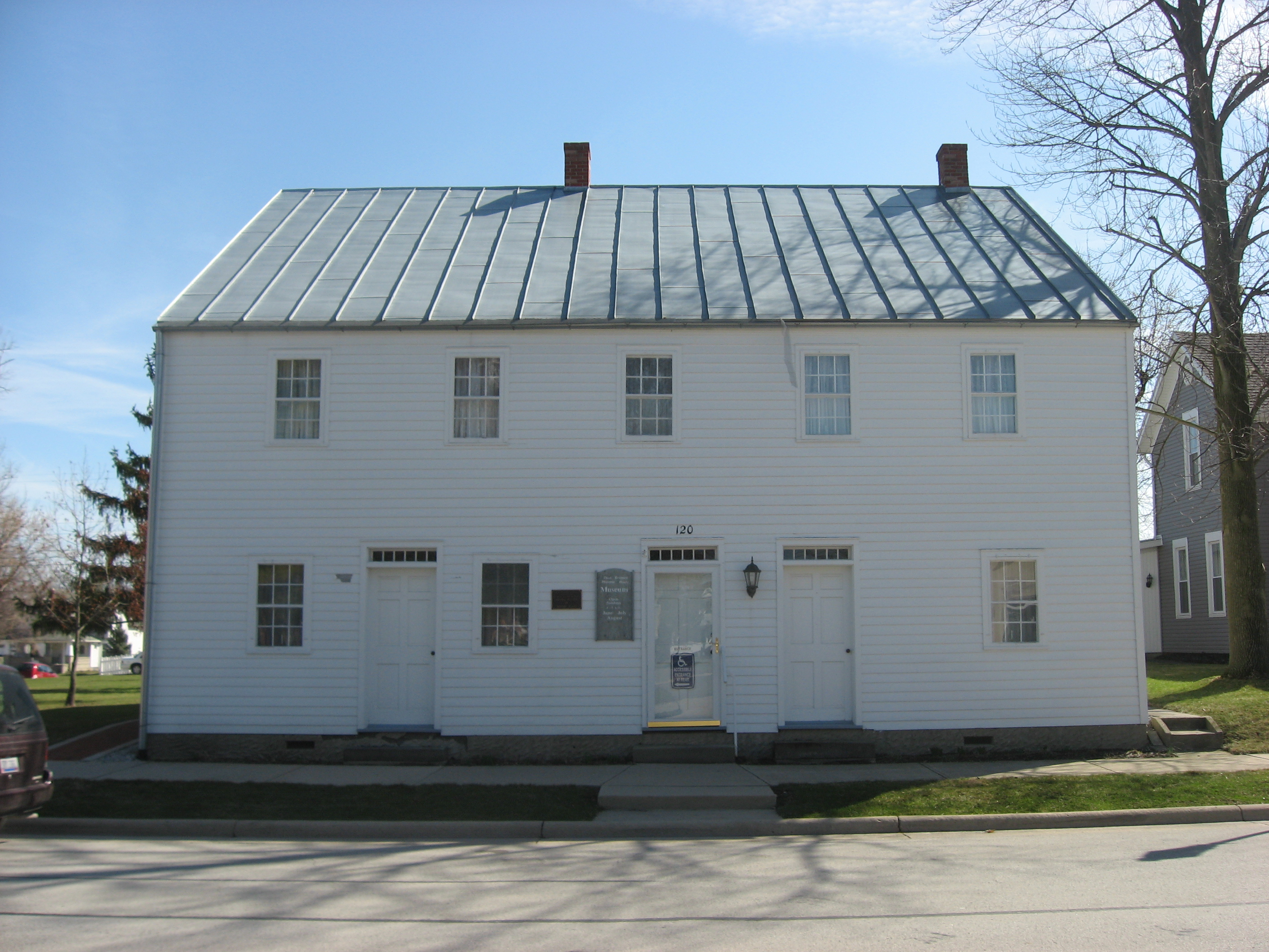 Front of the William Luelleman House, located at 120 N. Main Street in New Bremen, Ohio, United States. Built in 1837 and today the home of the local historical society, it is listed on the National Register of Historic Places.